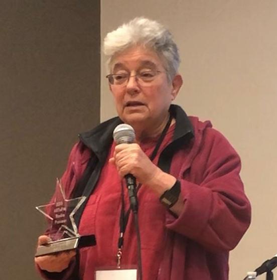 Frieda Werden receives the 2019 Art FM Radio Pioneer Award from ARTxFM / WXOX in Louisville, Kentucky at the end of the Grassroots Radio Conference.